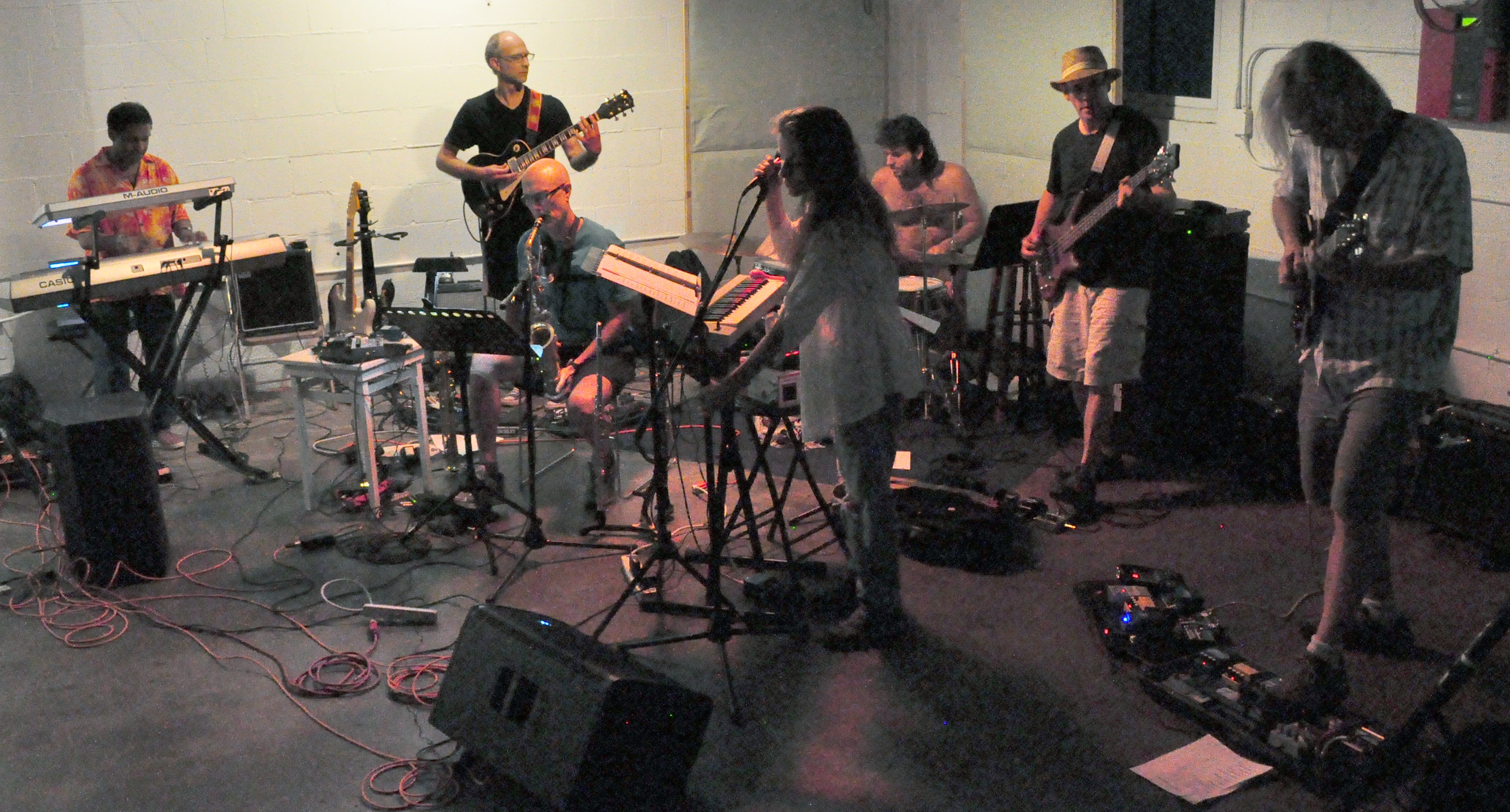 Thinking Plague performing at the 19th Olympic Experimental Music Festival, Olympia, Washington, USA.